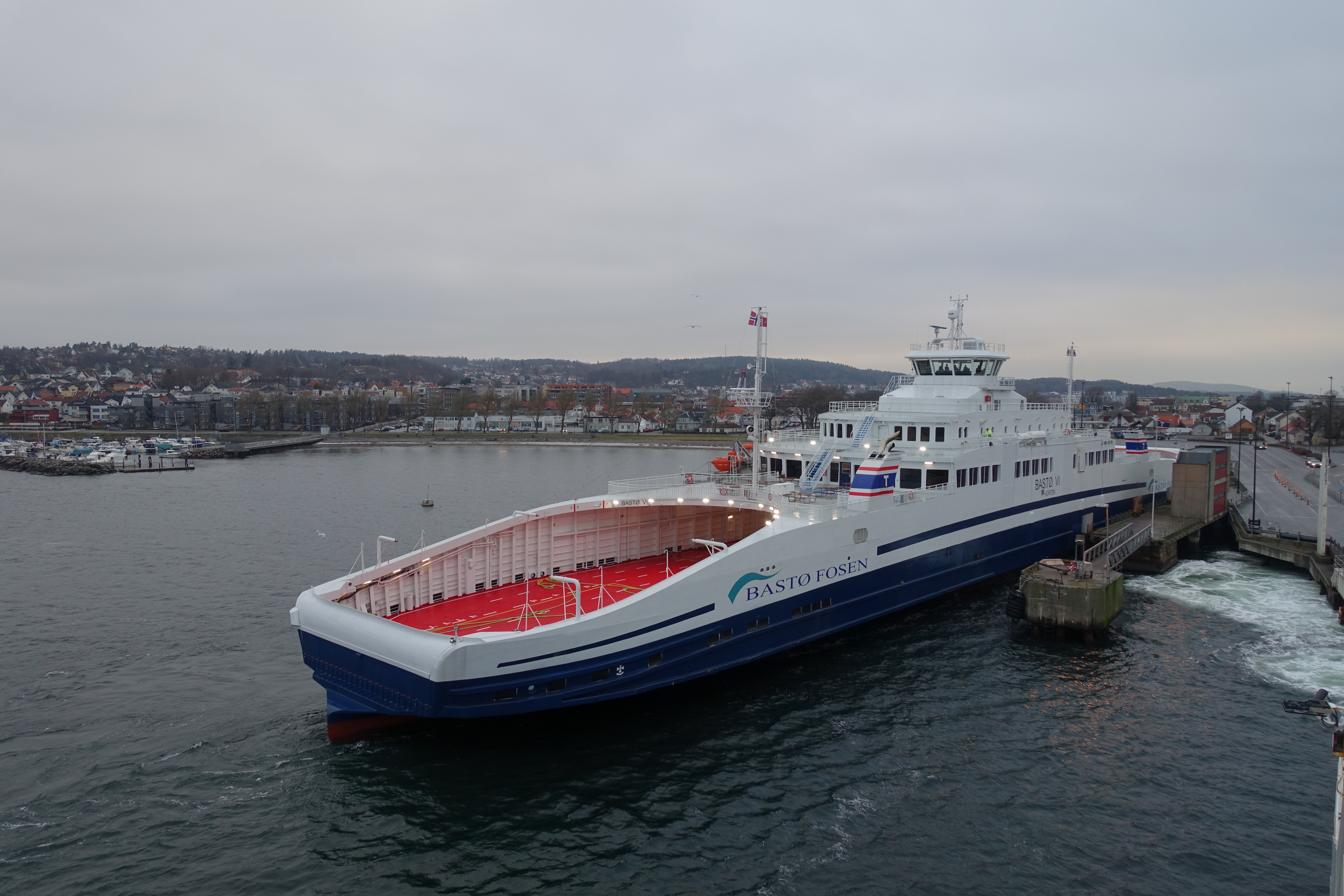 The ferry MF Bastø Vi in Moss, Norway, training crew and testing berths before starting regular service in January 2017